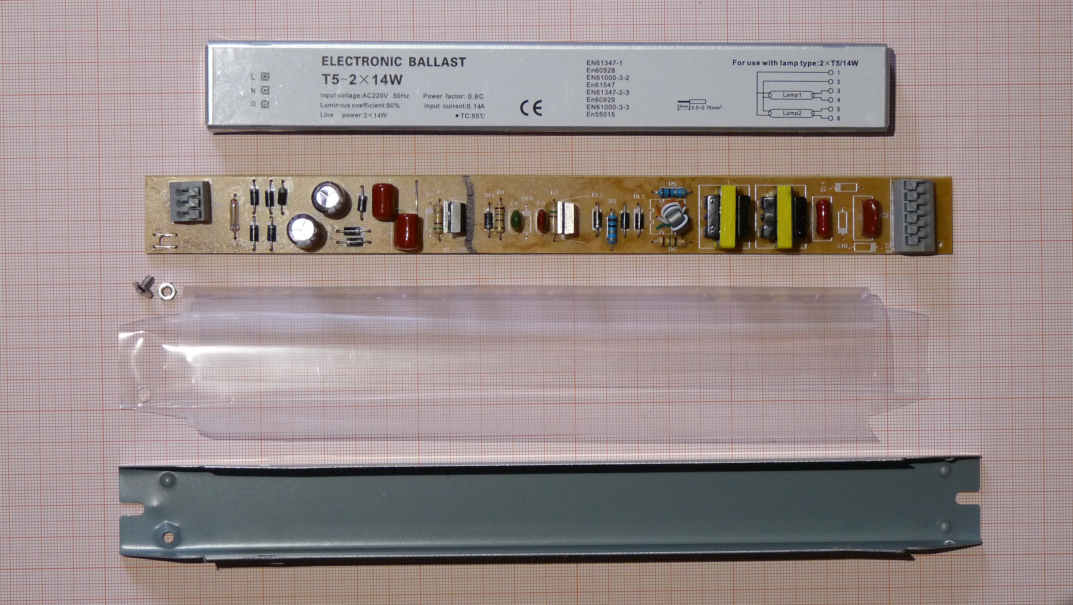 Disassembled electronic ballast